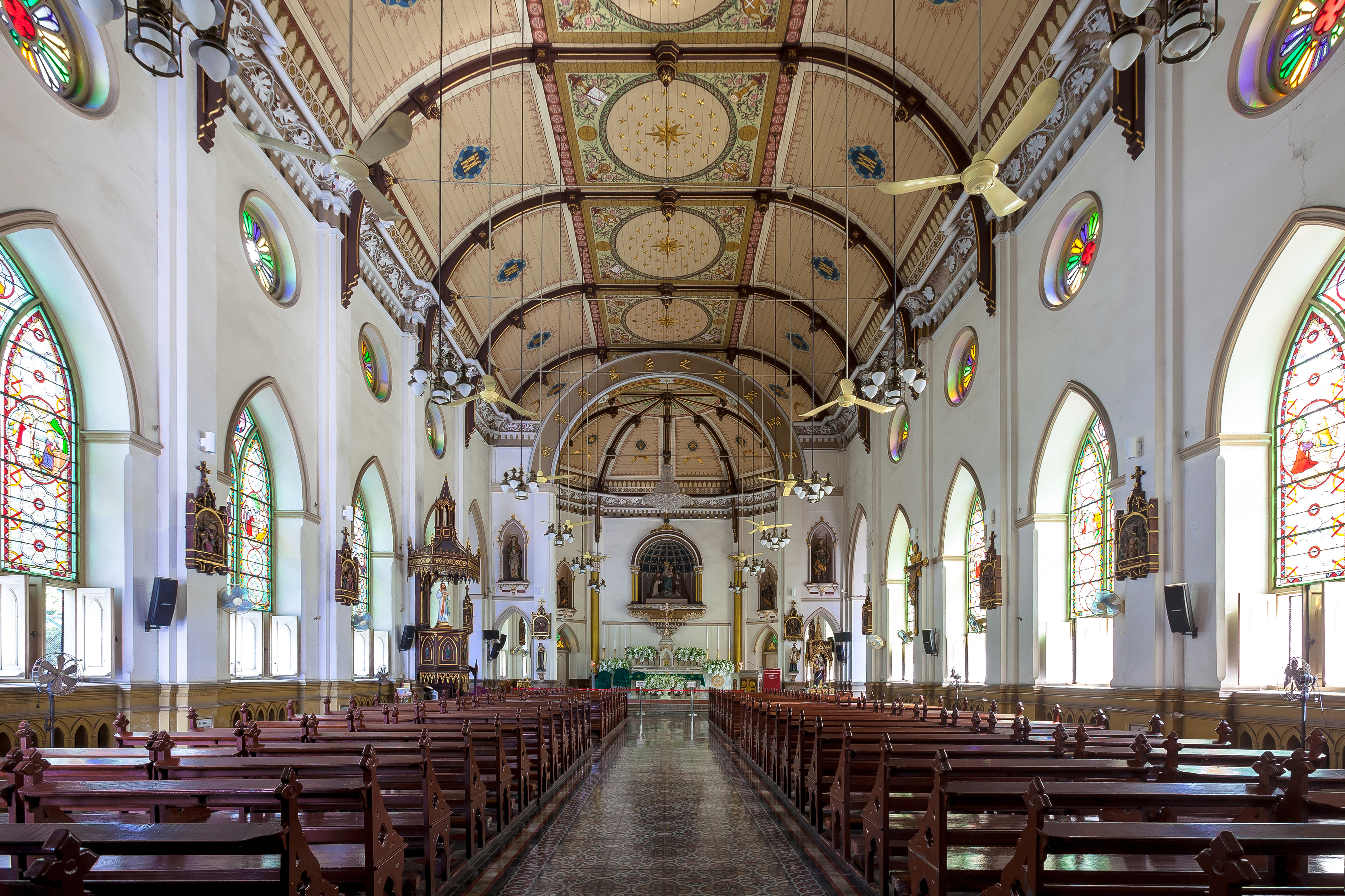 Holy Rosary Church or Karawah Church, Bangkok.